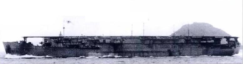 Japanese aircraft carrier Shinyo